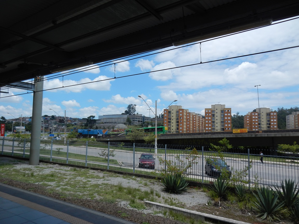 View of the Belas Artes condominium